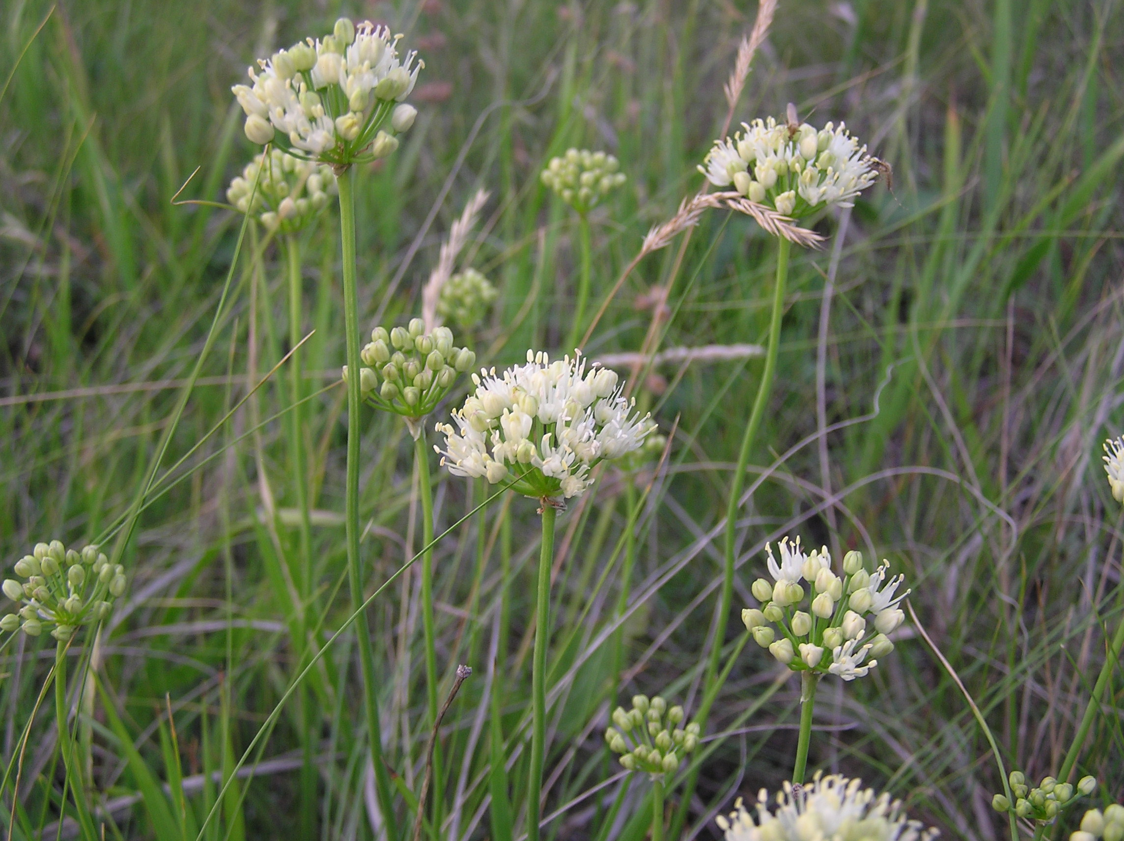 Allium flavescens Besser. Habitat: saline steppe. Vicinity of Saratov city, Russia.